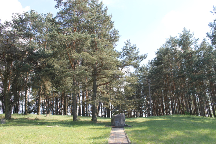 Veisiejai Jewish Cemetery, Lithuania